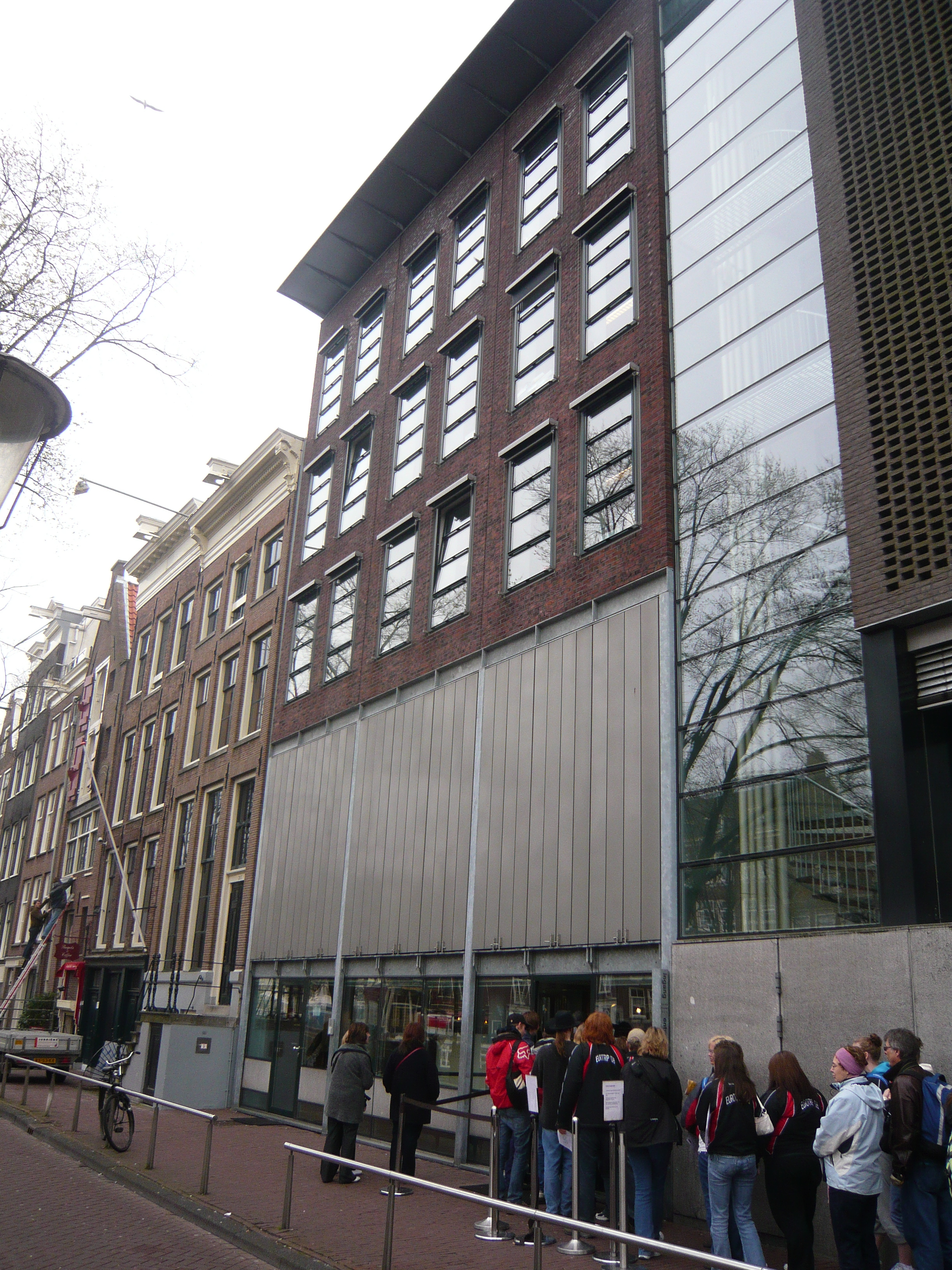 Anne Frank House, Amsterdam, Netherlands